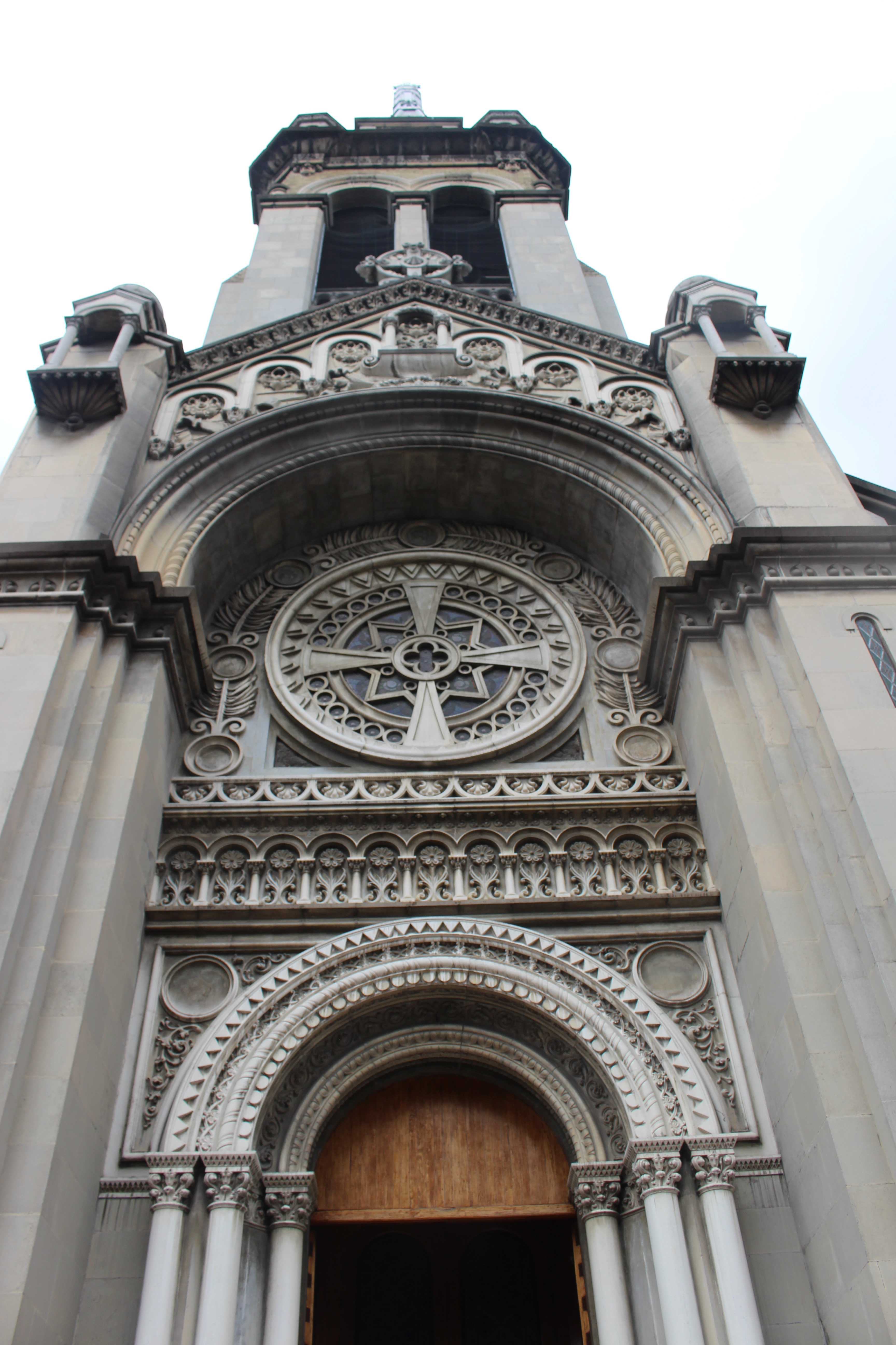 Exterior of the Sagrada Familia Parish, located at Colonia Roma, Mexico City.